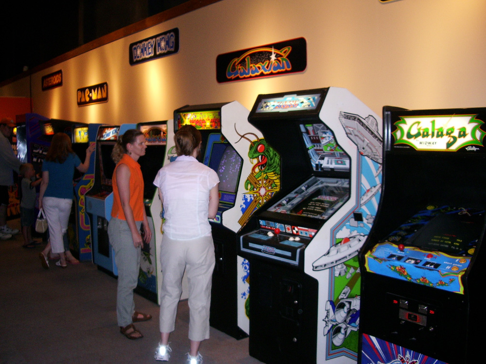 Pacific Science Center is an outstanding science museum in Seattle, located just north of downtown at Seattle Center next to the Space Needle. For July 2006, I could witness a special temporary exhibition, titled "Game On," chronicling the development of video games, starting with the Atari Pong to the latest hi-def consoles. Sponsor was none other than Nintendo, whose US headquarters is in Redmond. These are video game machines that saw commercial use in video game arcades, bowling centers, and elsewhere. A common scene around 1980 was to sink every spare quarter into one of these games, trying to get the highest possible score (and leave my name as a 3-letter initial as a reward). For this exhibition, I don't need to feed quarters to play - they are all free. I easily blew past 200,000 points, and probably Stage 21, on Galaga on the far right on this day. Back in its heyday, I was lucky if I could get to Stage 4. Growing up helps. And I prefer these primitive video games, which made strategy (and on the part of the programmer, actual attention to gameplay and replayability as well as efficient use of limited memory and processing power) more important compared to modern games and their emphasis on pretty visuals.